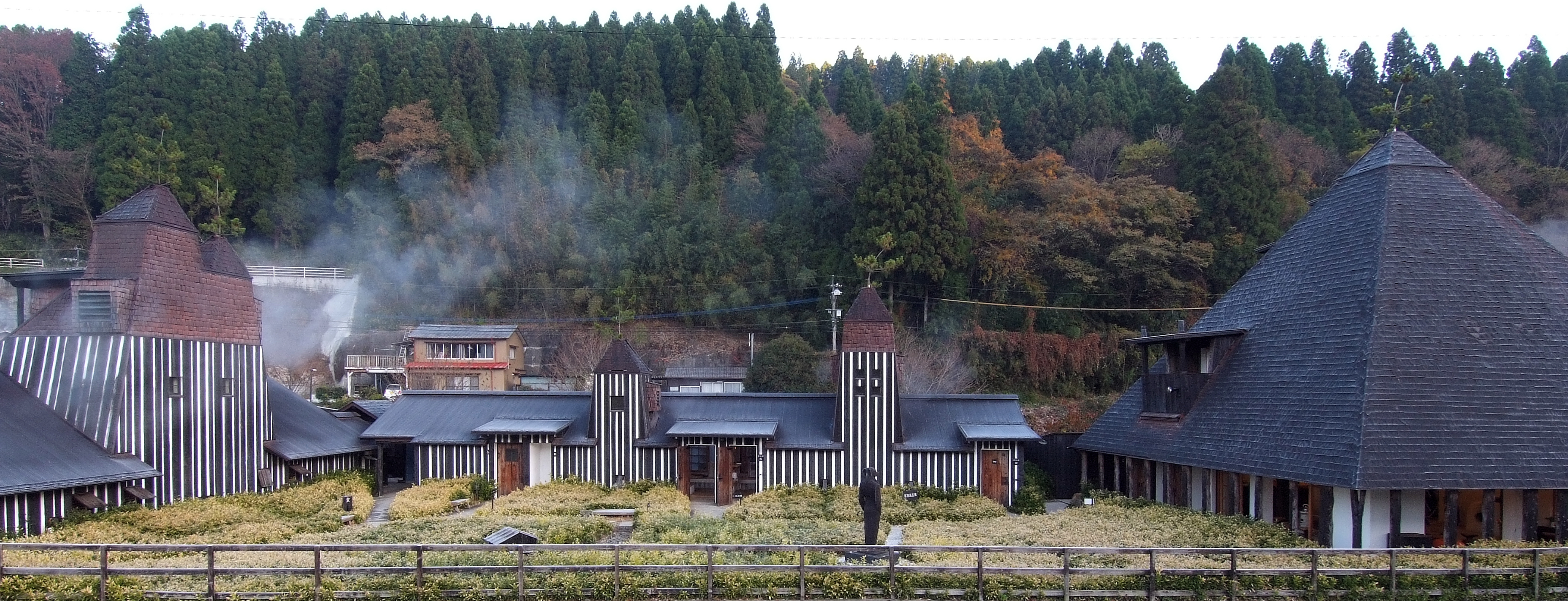 Lamune Onsen(Lamune Hot Spring House), at Taketa Ōita Japan, design by Terunobu Fujimori in 2005.